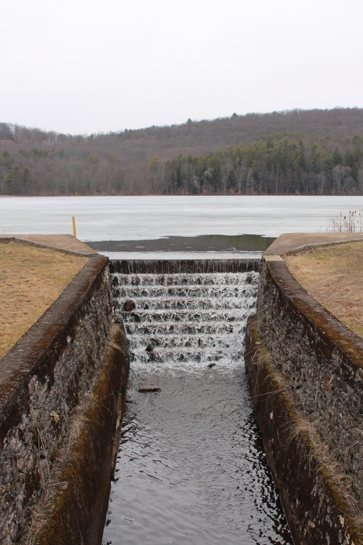 Harris Pond (background), Harris Pond Dam (middle), beginning of Roaring Brook (foreground)